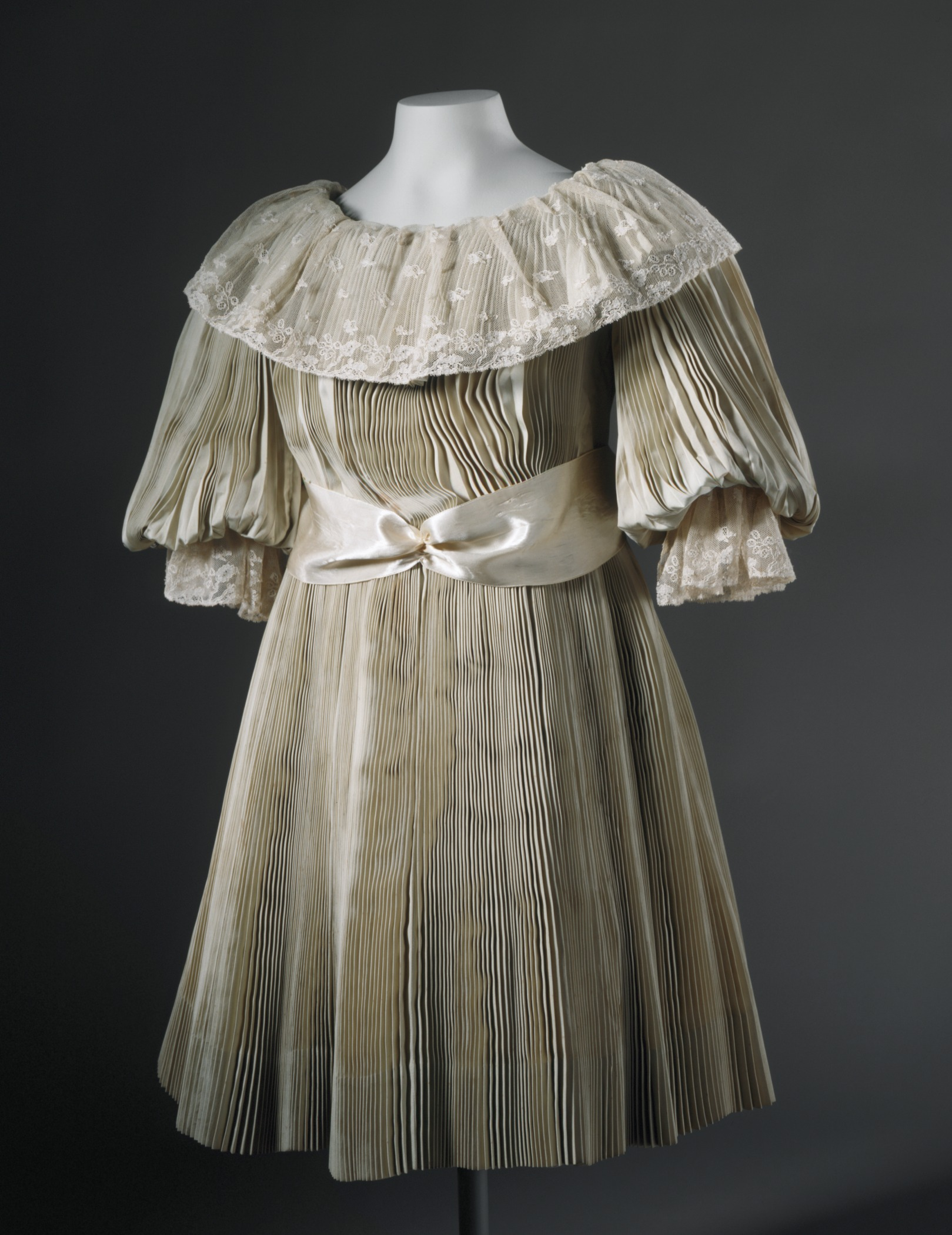 United States, early 1895 Costumes; principal attire (entire body) Knife-pleated silk faille, silk ribbon, and lace trim Center back length: 27 in. (68.6 cm) Gift of Helen Larson (AC1999.46.15) Costume and Textiles